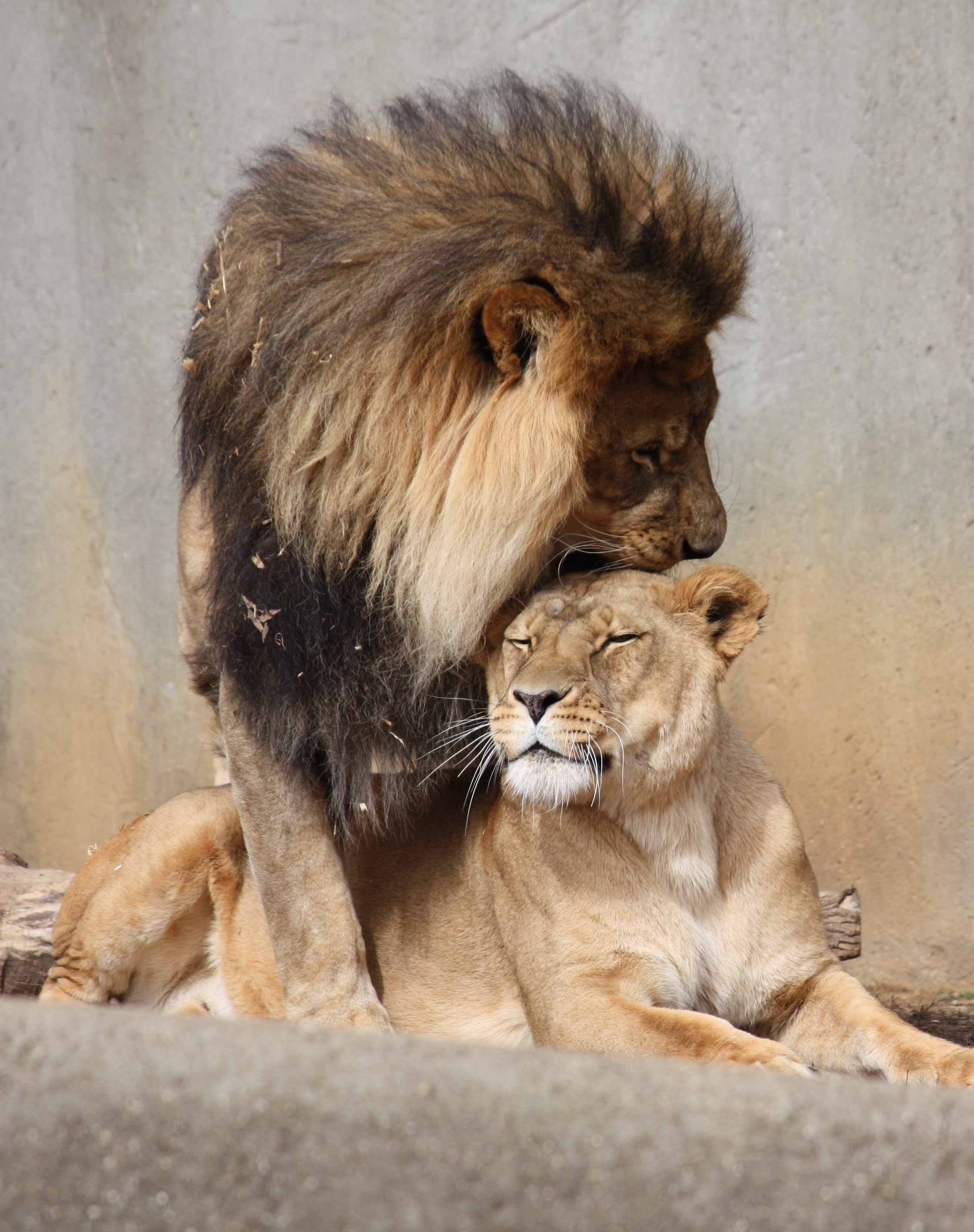 Lion mating ritual, Louisville Zoo